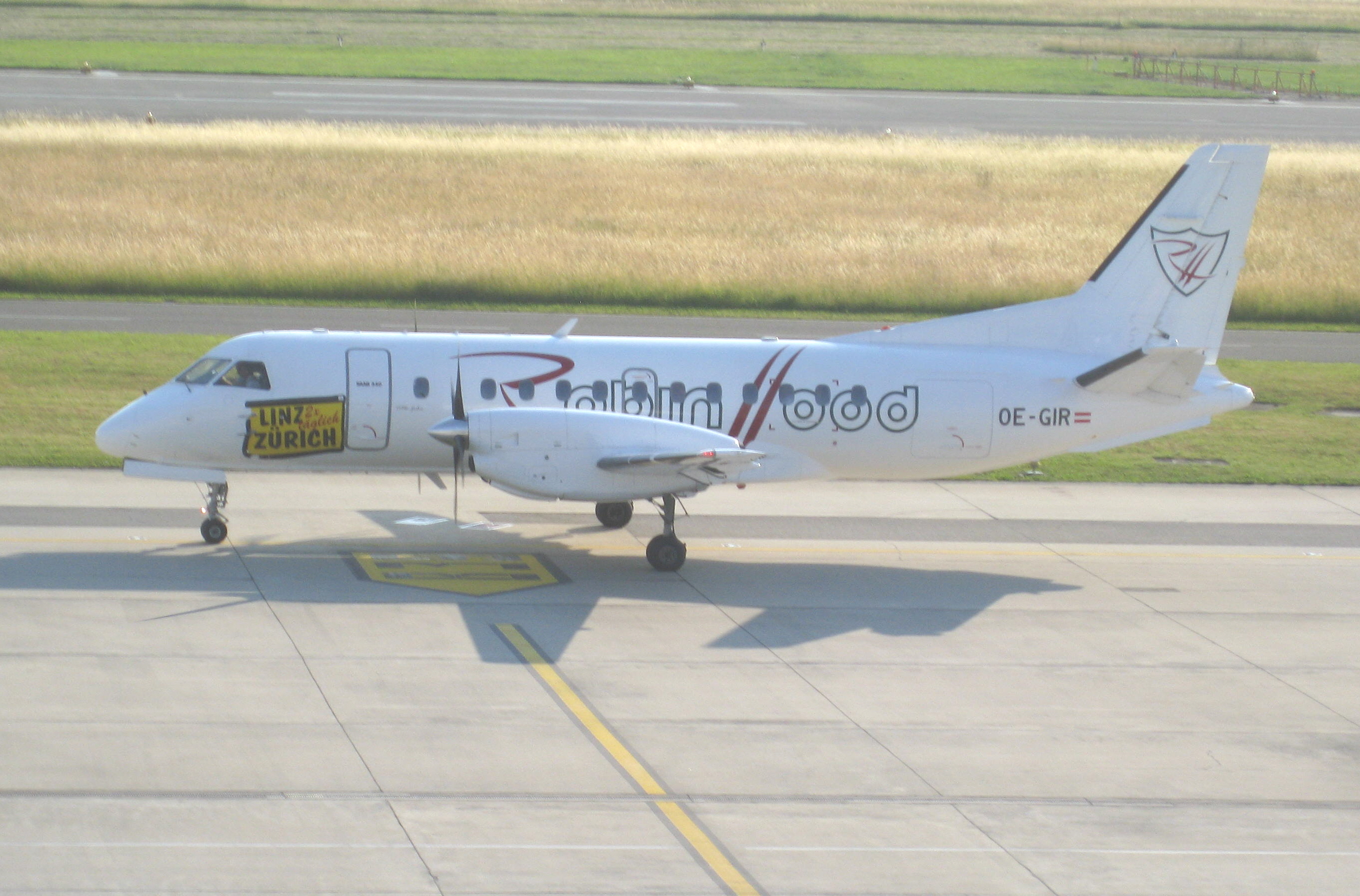 Robin Hood Aviation SAAB SF340 at Zurich Kloten airport